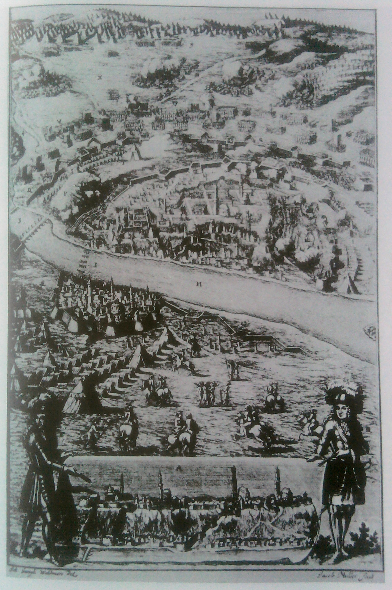 Siege of Buda, 1686, by J. Müller, J.J. Waldmann